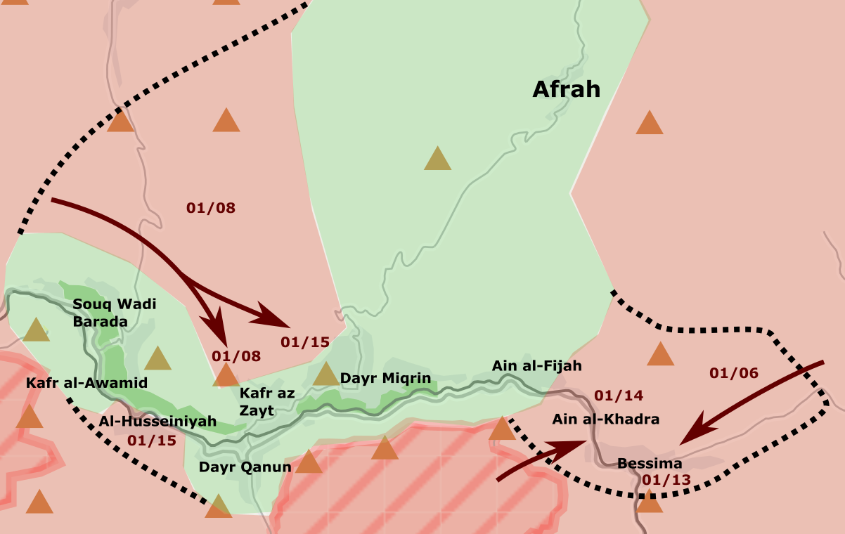 Wadi Barada, situation on 15 January 2017.